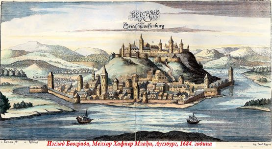 Picture of Belgrade in 1684